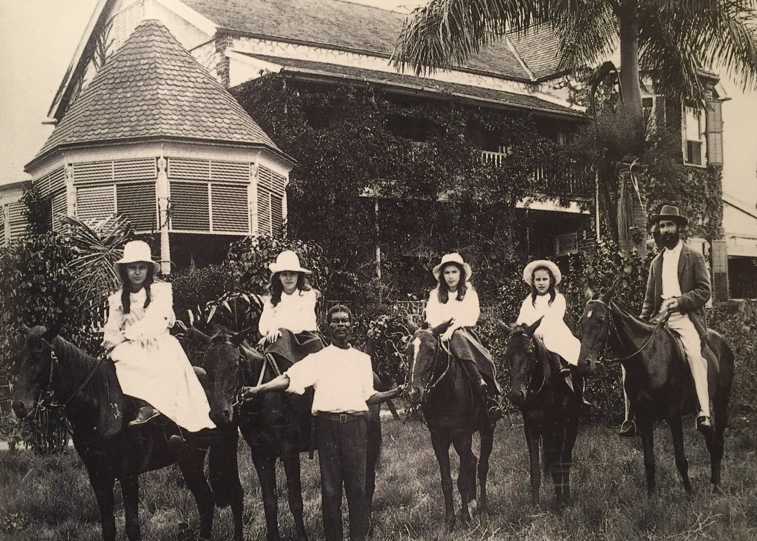 Sir Sydney Olivier with his four daughters on horseback, in Jamaica 1903. From L: Margery, Daphne, Bryhild, Noel, Sydney Olivier